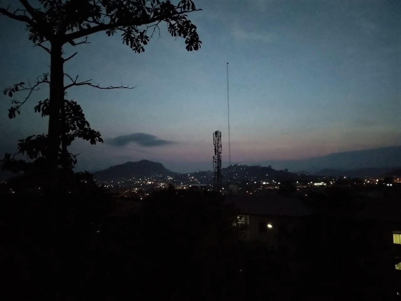 Yaoundé, known as the city surrounded by the seven hills, has thanks to these, a side not only very fresh but also very beautiful. Thus, a nocturnal and luminous version, increases moreover this beauty